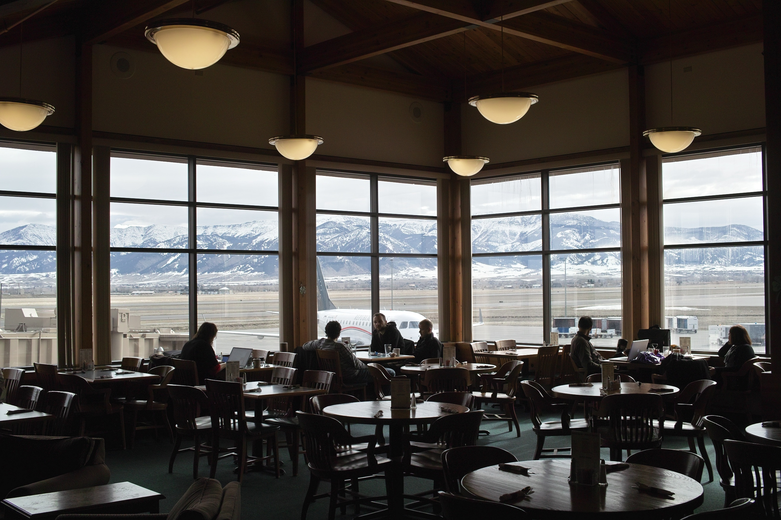 Gallatin Field Airport Restaurant